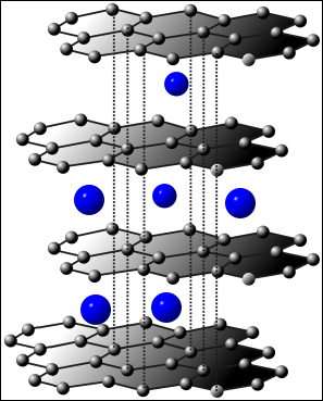 Intercalation: atoms intercalated between layers of graphite.